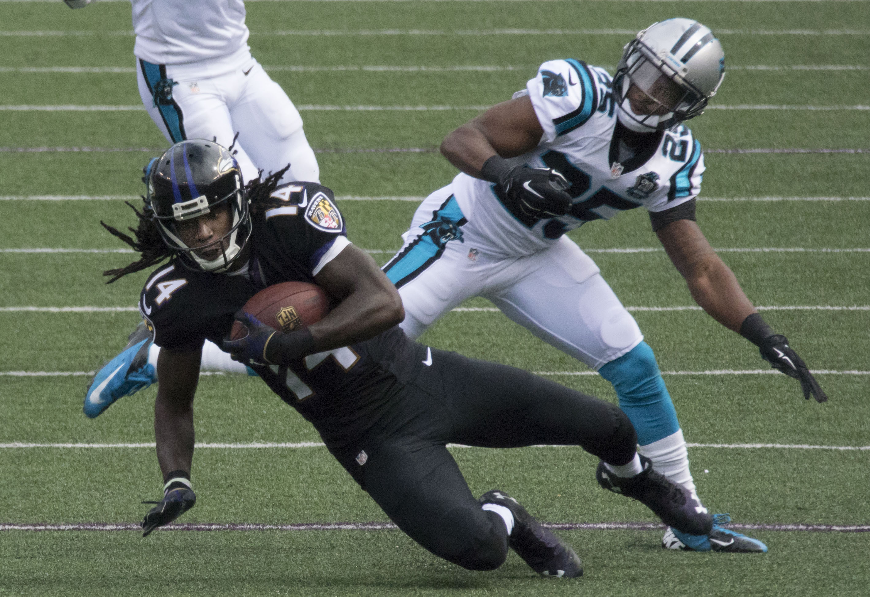 Panthers at Ravens 9/28/14 - Baltimore Ravens wide receiver Marlon Brown makes a catch, guarded by Carolina Panthers cornerback Bene Benwikere.